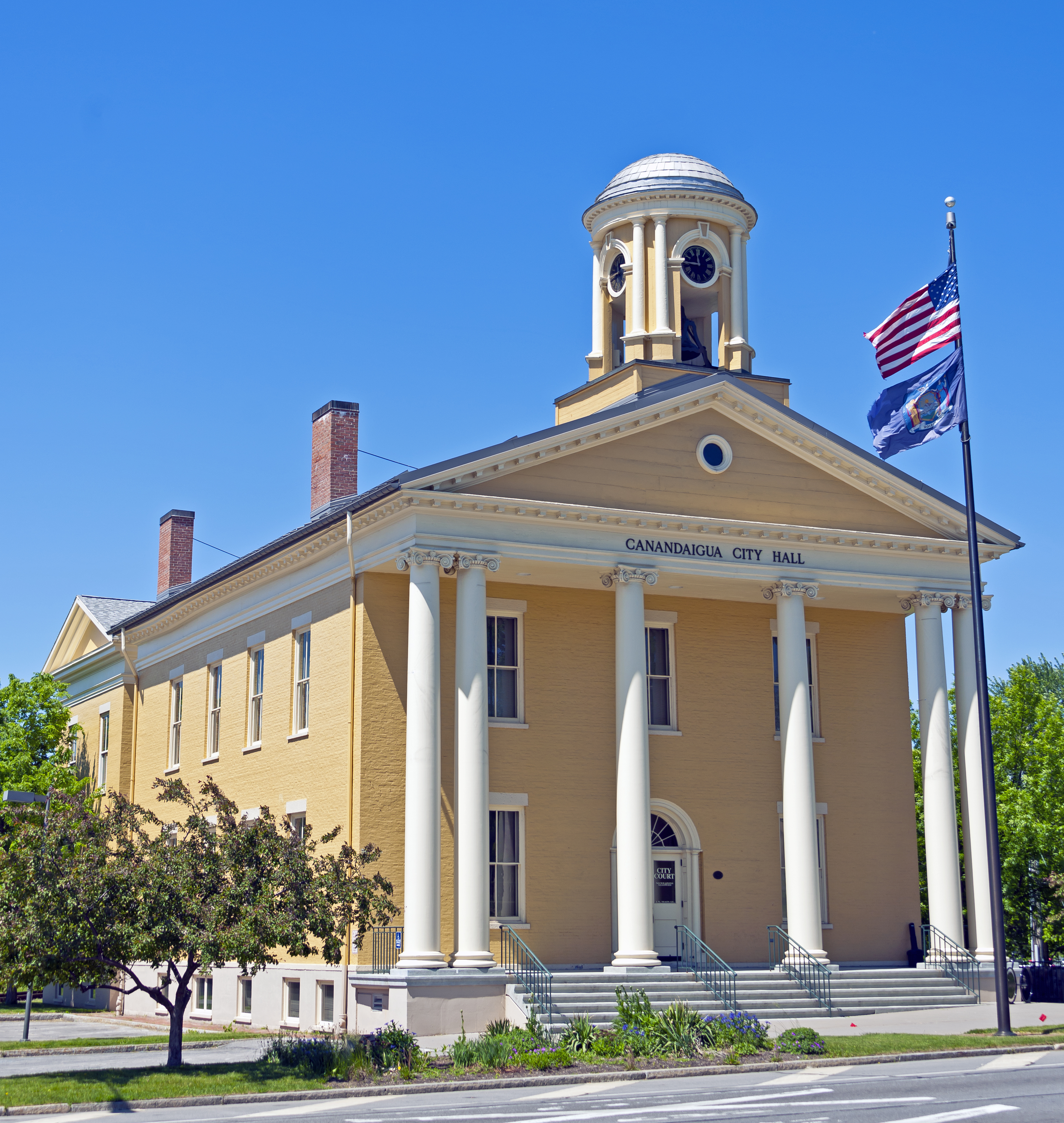 Canandaigua City Hall, a contributing property to the Canandaigua Historic District